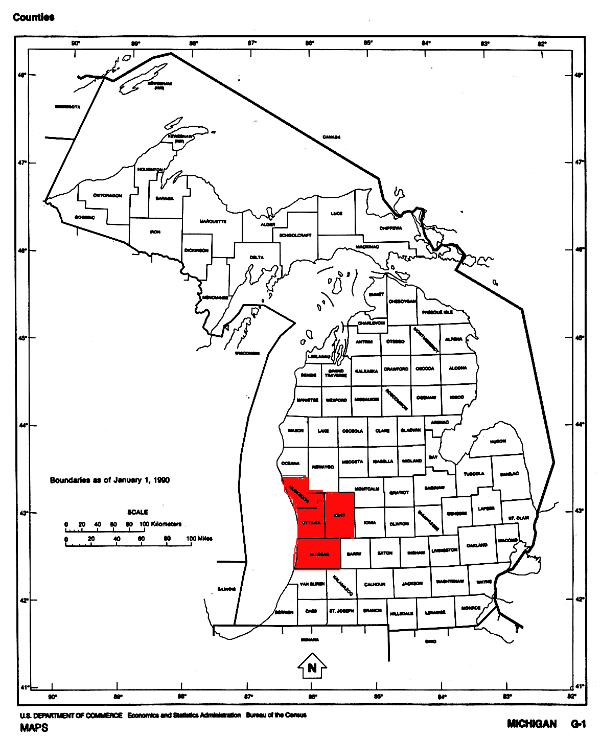 Edited a U.S. Census Bureau map of Michigan showing counties in w: .